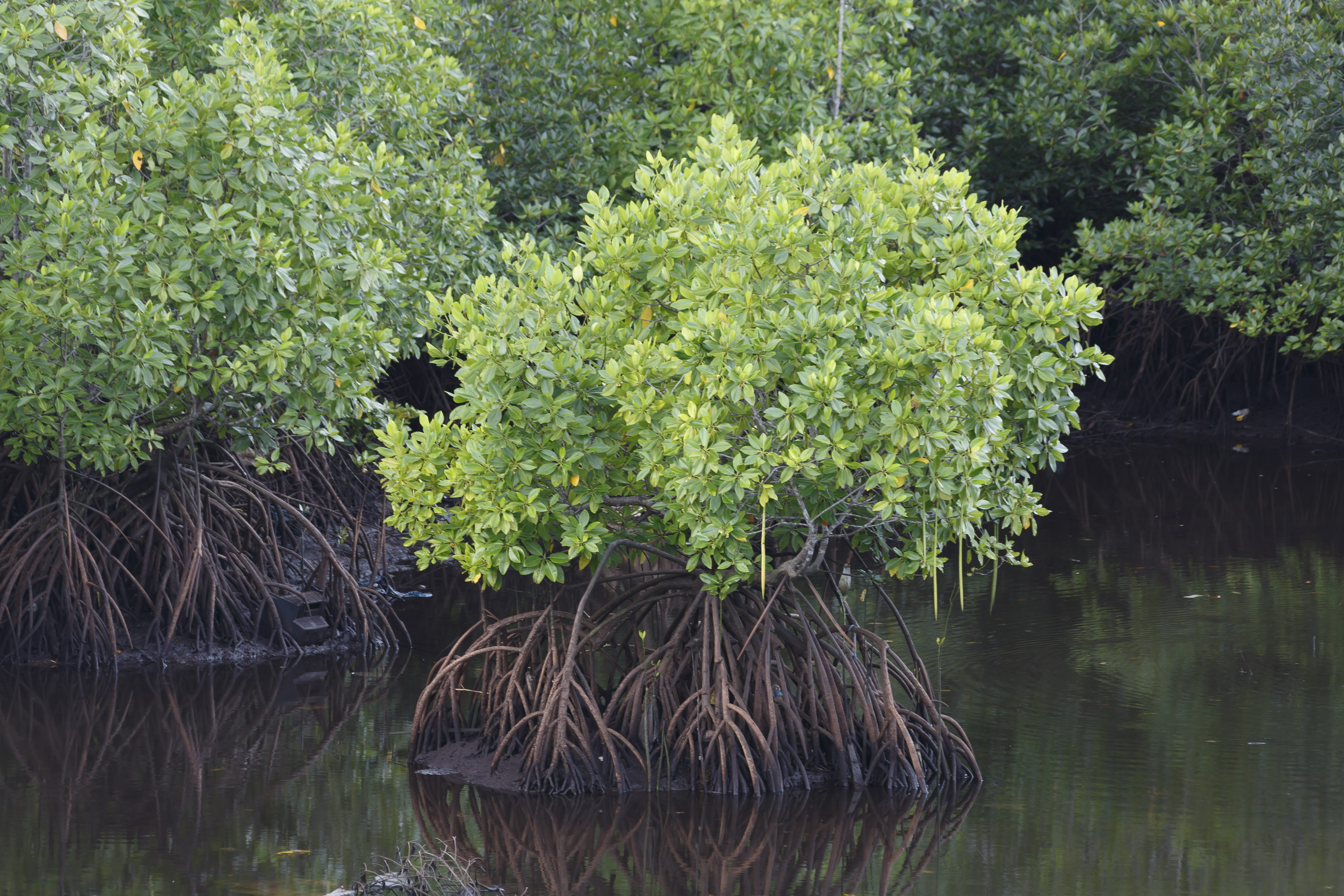 Semporna, Sabah: Mangroves, seen from the bridge between Kg. Bubul and Sri Jaya Water Village